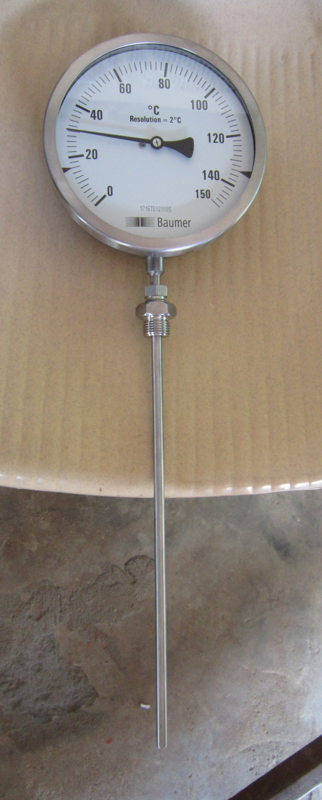 Industrial instrumetns-dial guage stem thermometer.Measures temp.o f liquids and gases